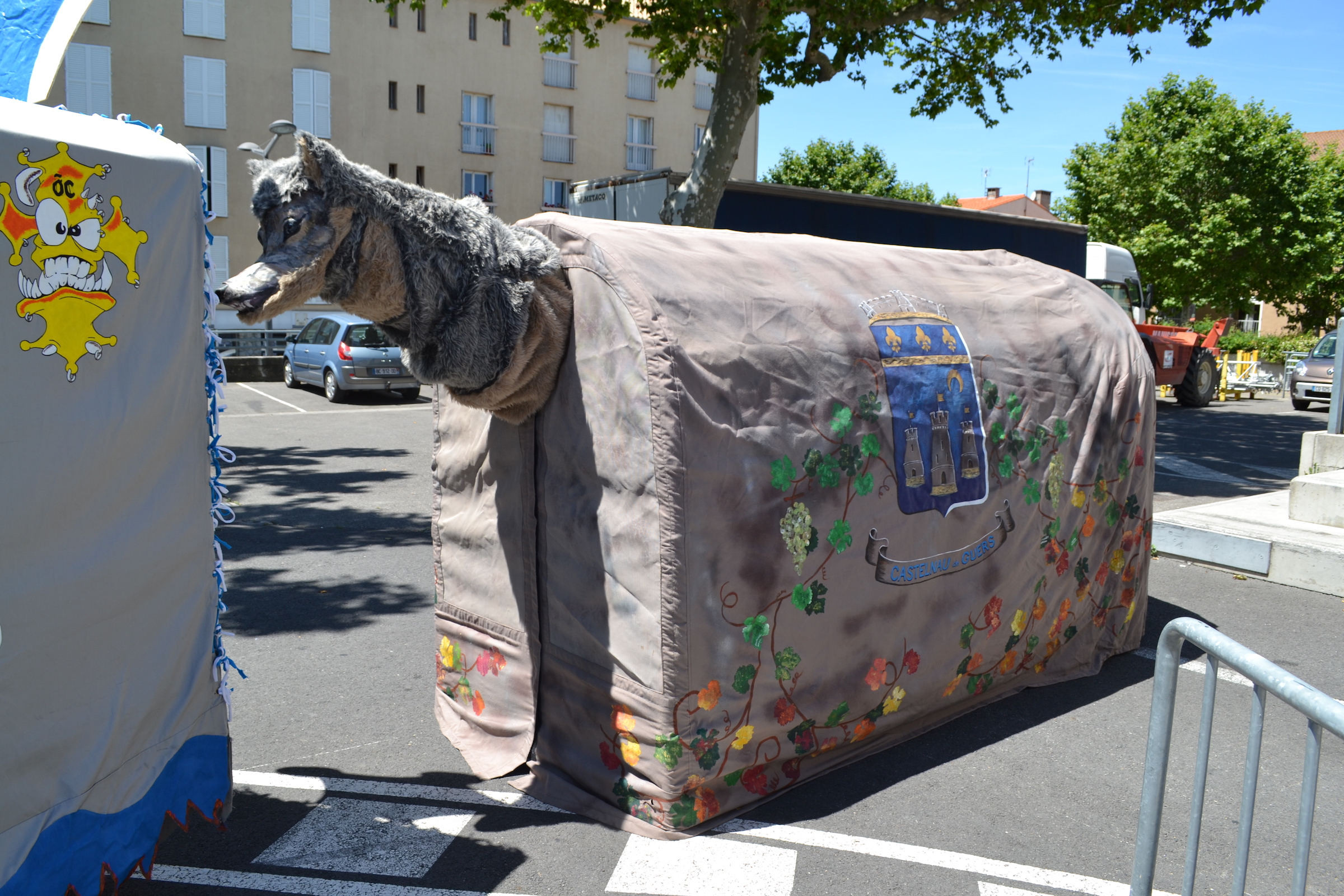 Wolf, Castelnau-de-Guers totemic animal, during Euroregional Forum "Heritage and creation" in Castelnaudary in 2016.